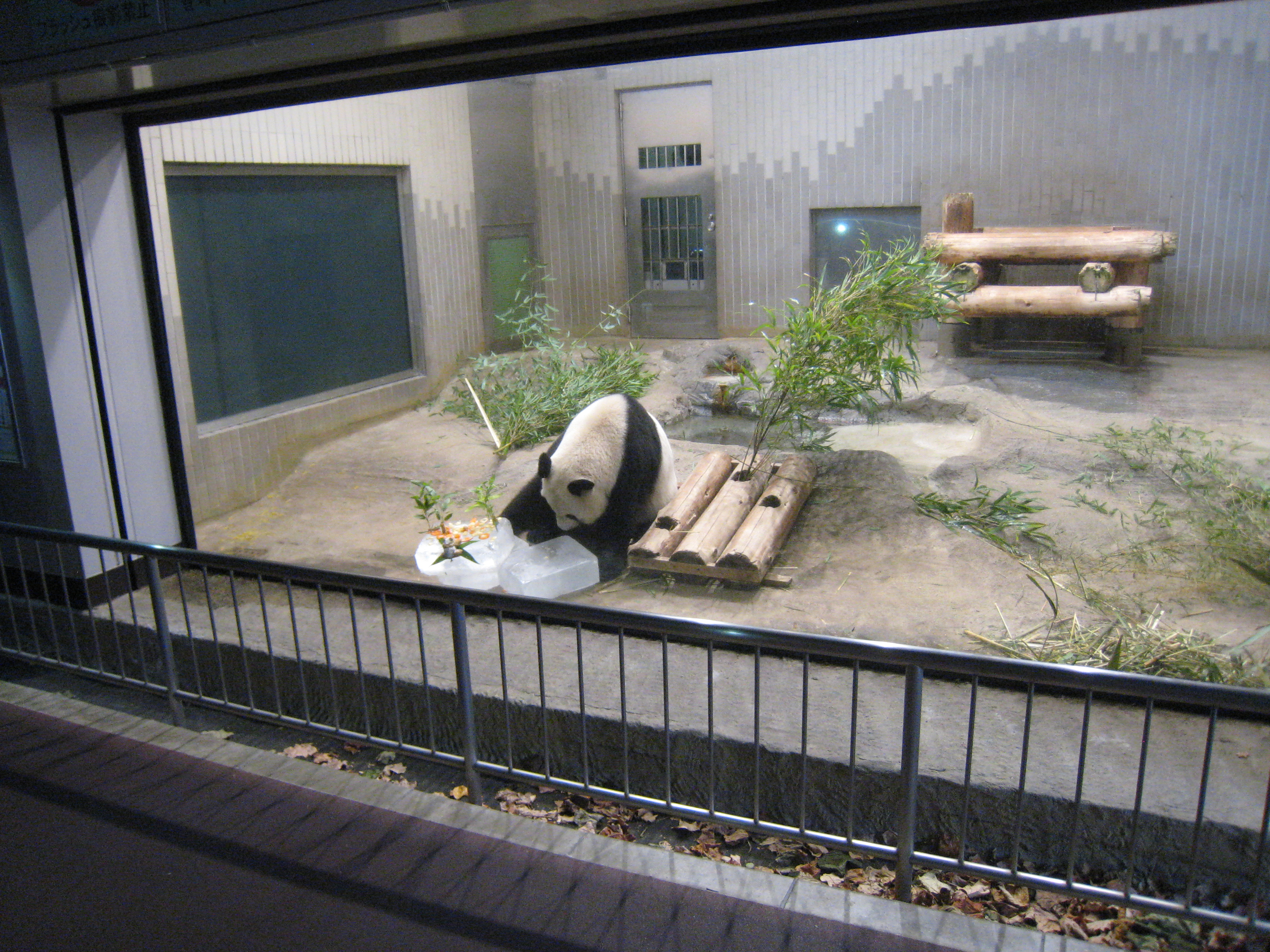 Giant Panda in Ueno Zoo, Tokyo